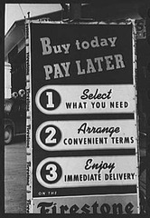 Installment buying (1924)